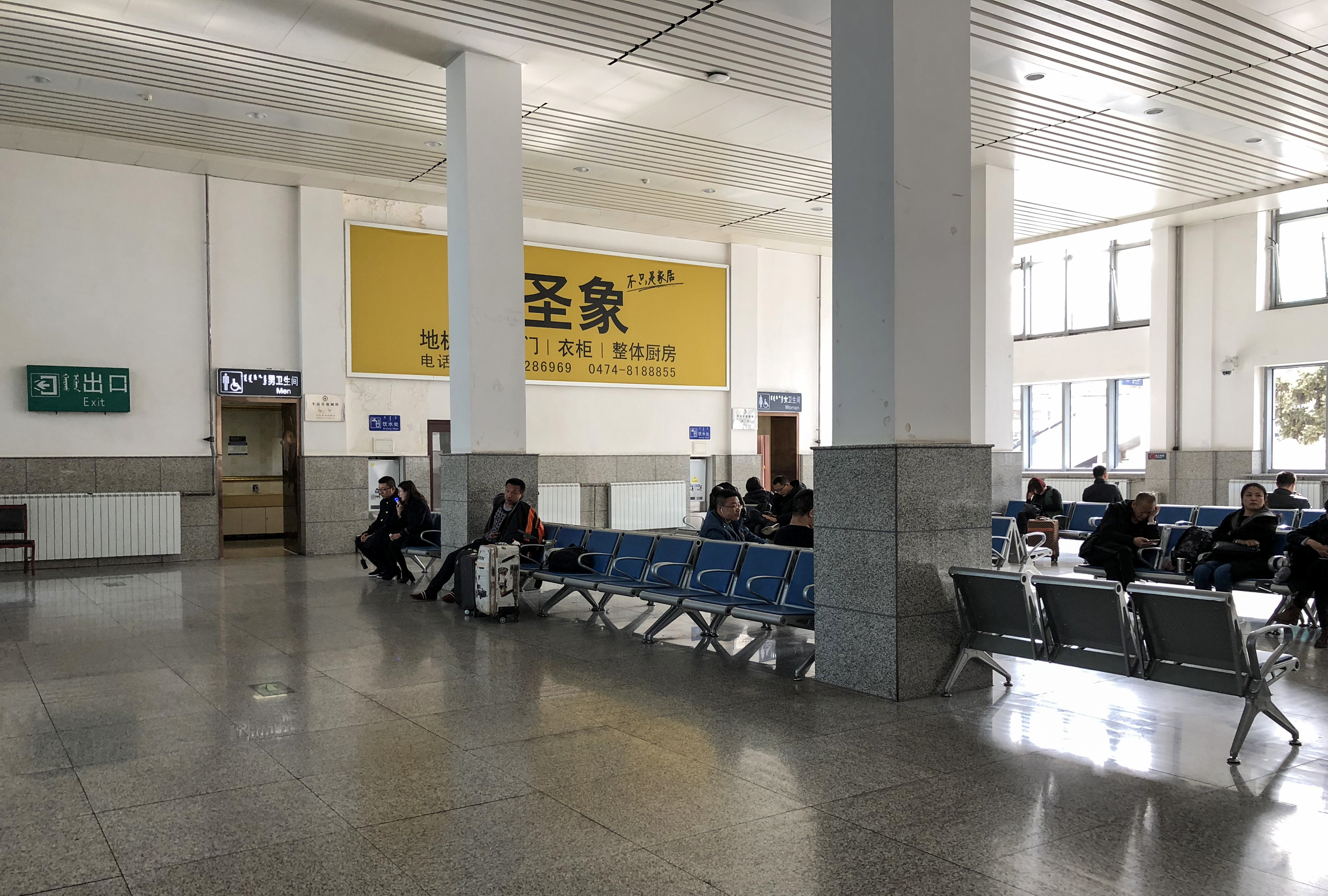 Under temporary control for Beijing-bound trains.